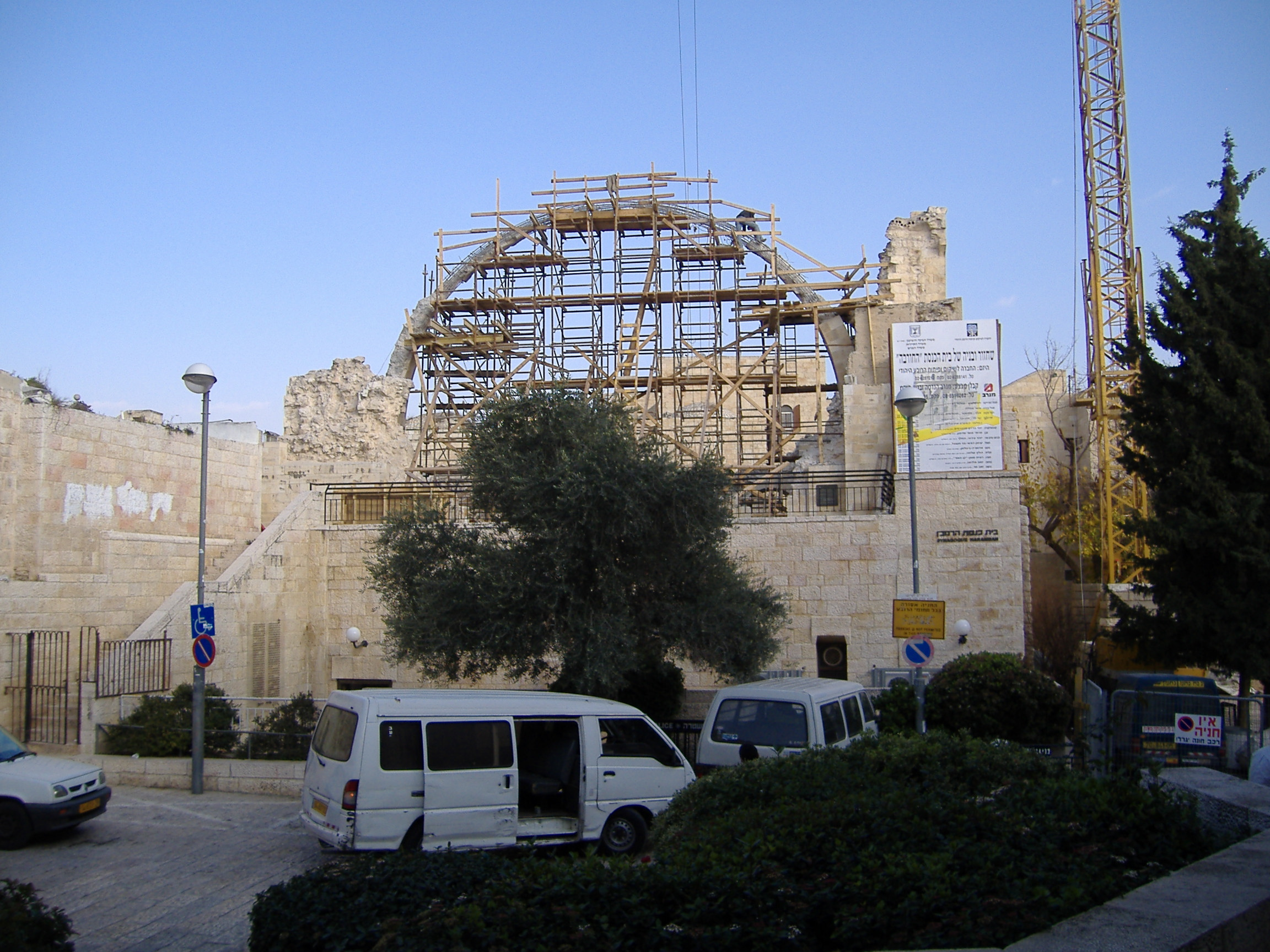 Reconstruction taking place at the Hurva Synagogue, Jerusalem.